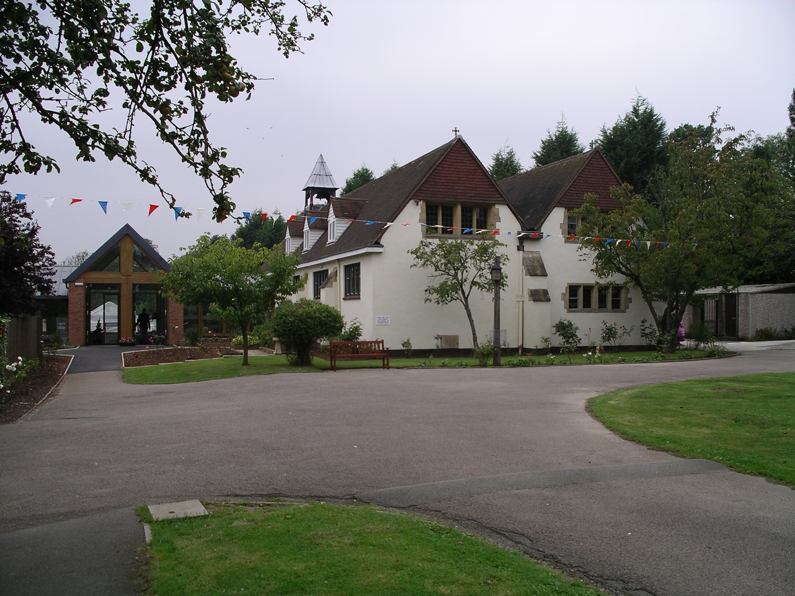 St Martins in the Fields Church, Finham, Coventry, England.